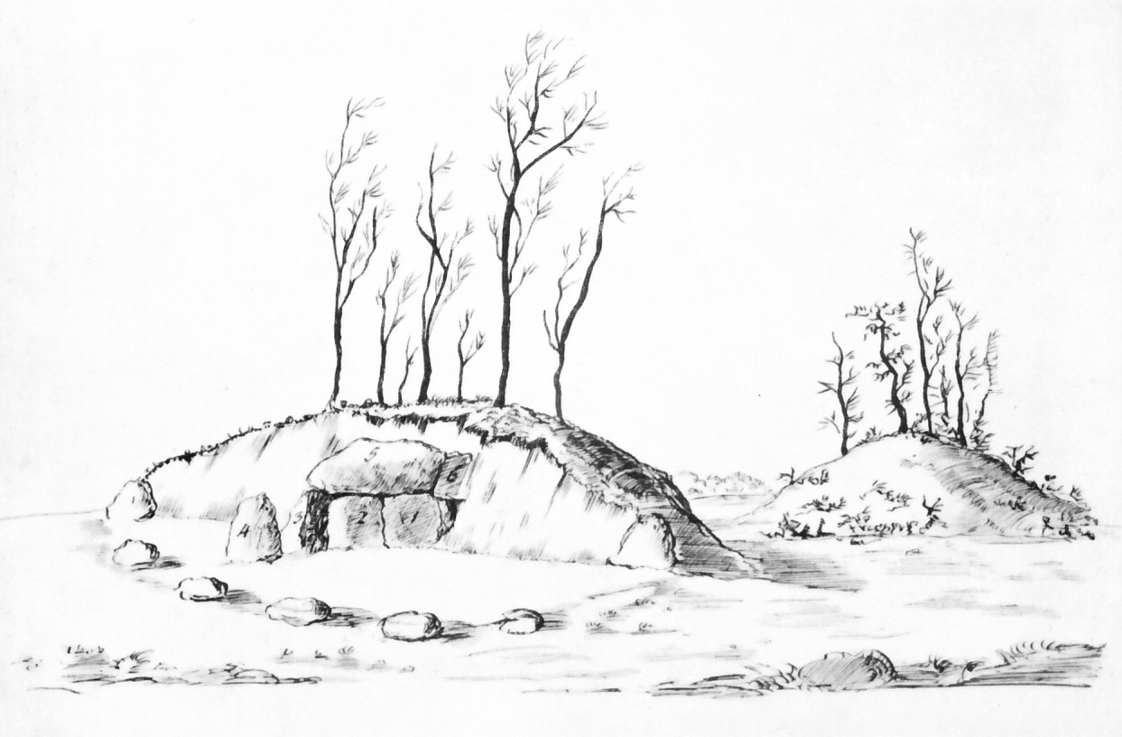 Drawing of the Dolmen near Kronsgaard.